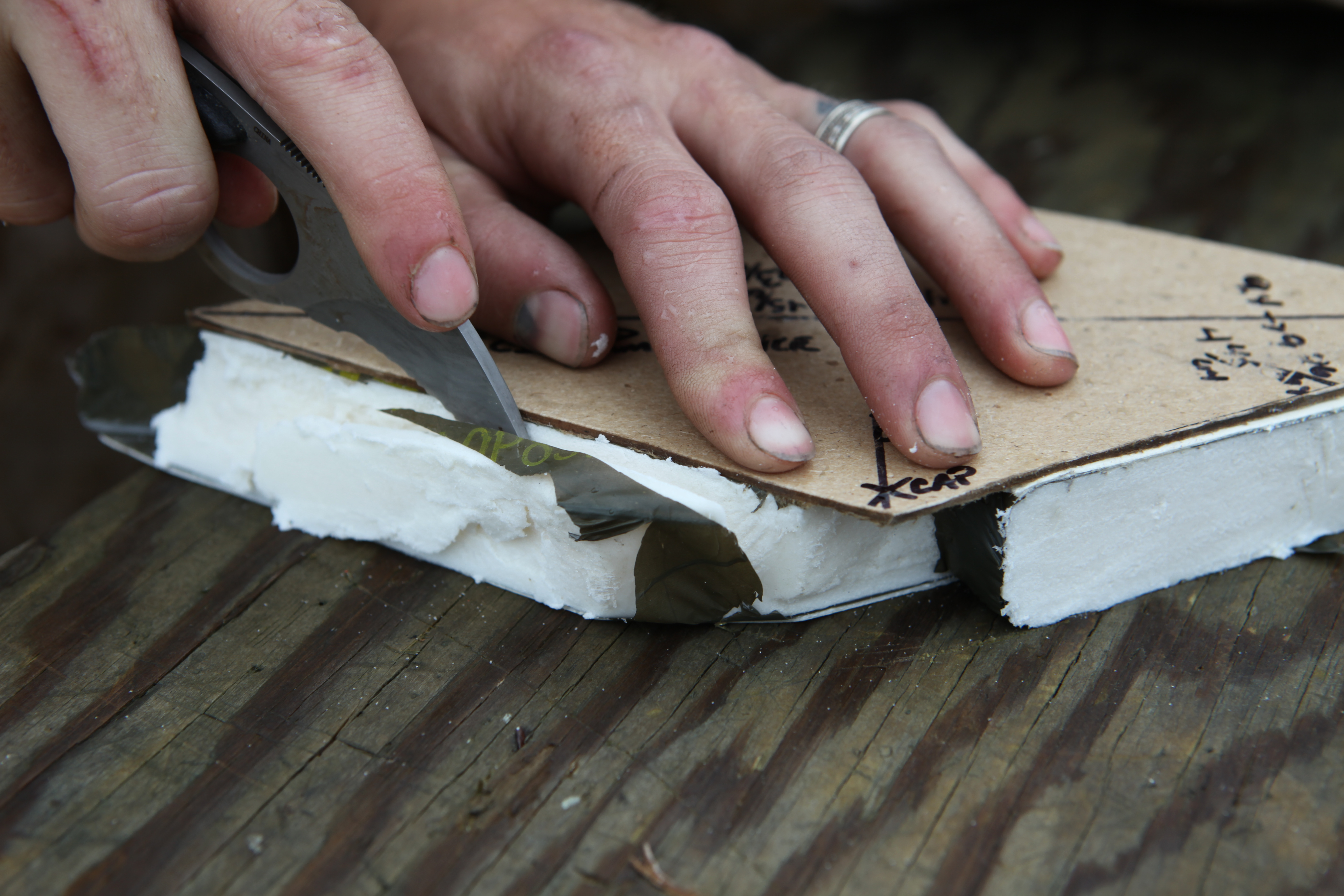 A Marine with Engineer Detachment, Combat Logistics Group 26, 26th Marine Expeditionary Unit, cuts and shapes C4 into a diamond shape to cut through three-inch solid steel during a demolitions range at Realistic Urban Training aboard Fort A.P. Hill, Va. June 9, 2010. The shape of the explosive material determines the type of damage caused. This was just one of many courses conducted during the 18-day Realistic Urban Training Exercises the MEU will participate in as part of its pre-deployment training. The urban environment is among the most challenging tactical environments MEU Marines may face during their scheduled deployment later this fall.